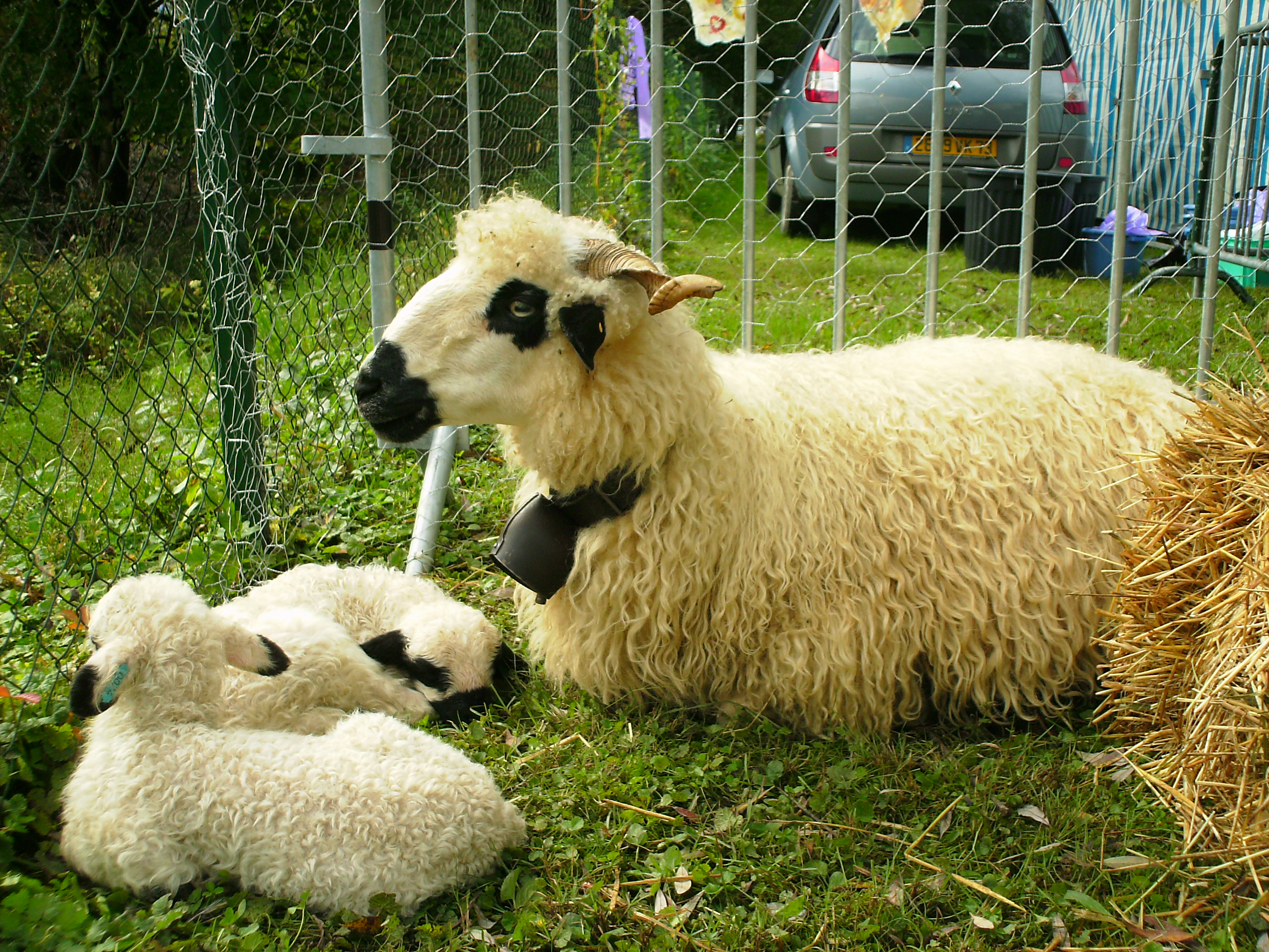 Female with her lambs, "Thônes et Marthod" french race